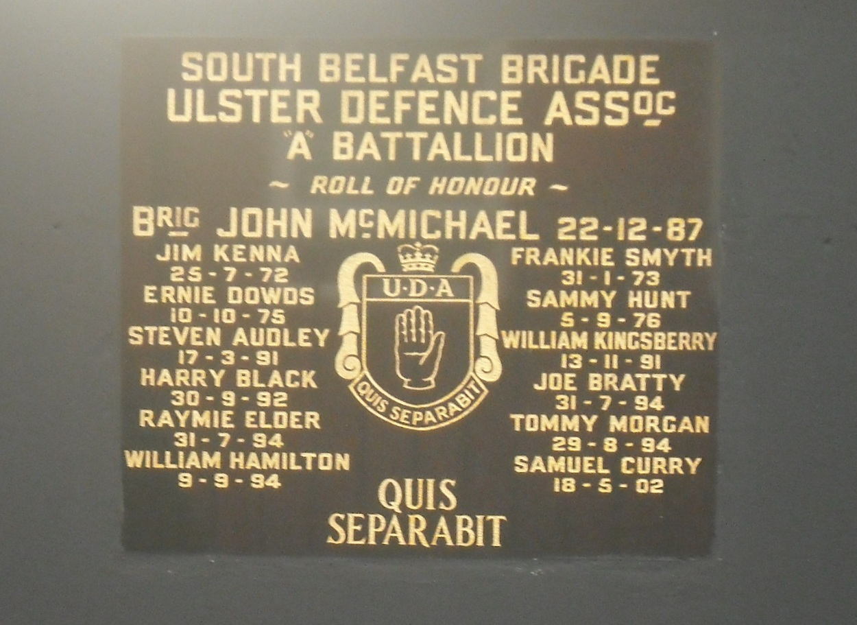 A plaque commemorating John McMichael and other members of the Ulster Defence Association South Belfast Brigade, City Way, off Sandy Row, Belfast